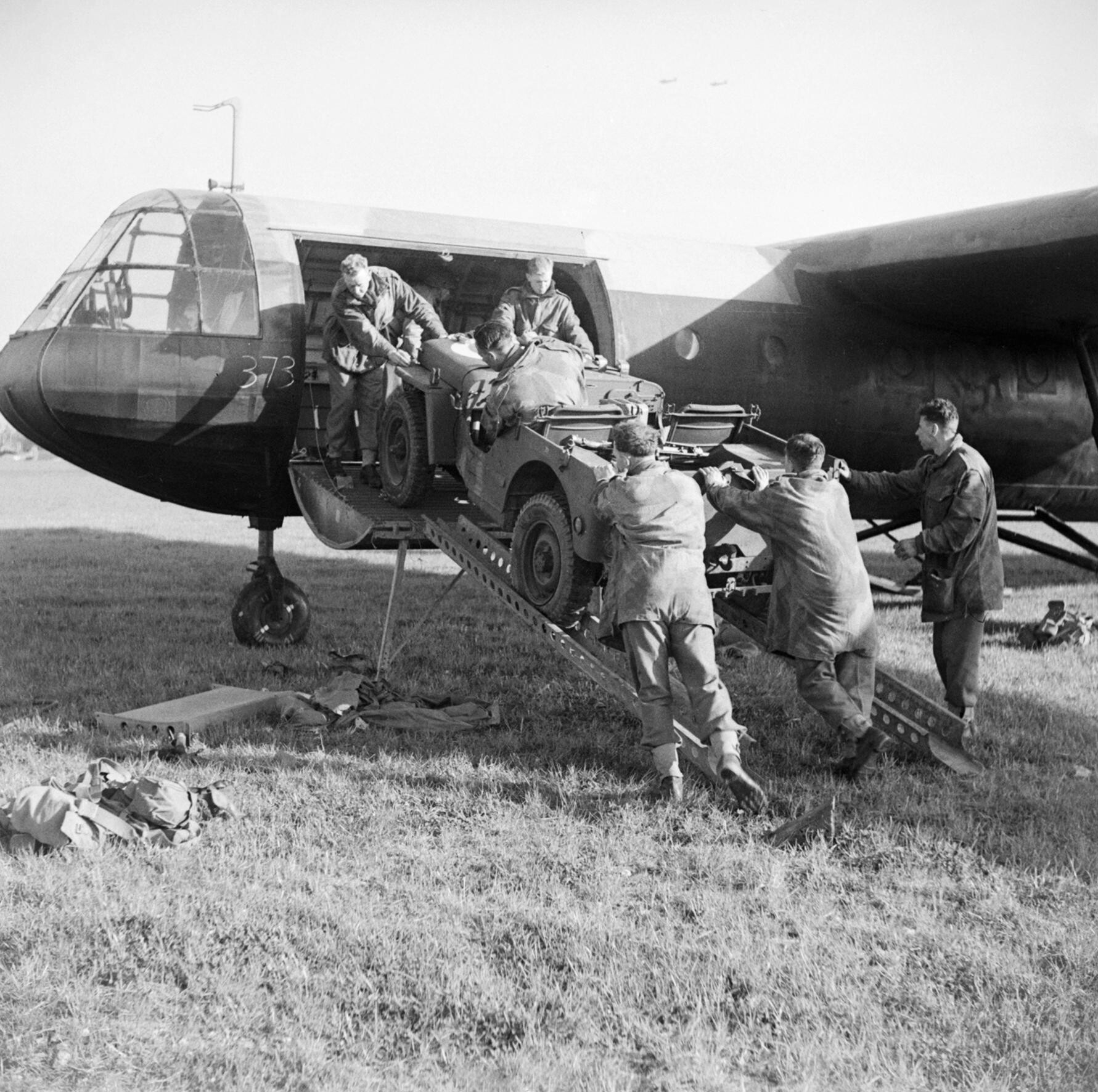 A jeep is loaded aboard a Horsa glider during a large-scale airborne forces exercise, 22 April 1944. A jeep is loaded aboard a Horsa glider during a large-scale airborne forces exercise, 22 April 1944.